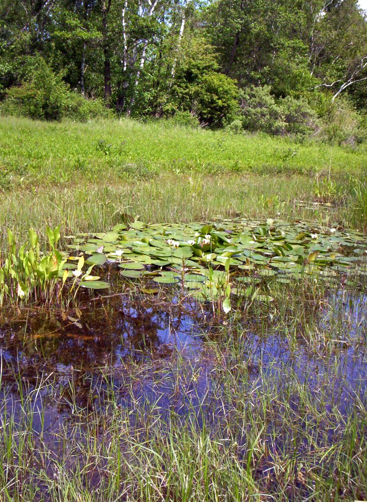 Lake in nature reserve Voornes Duin in South Holland.